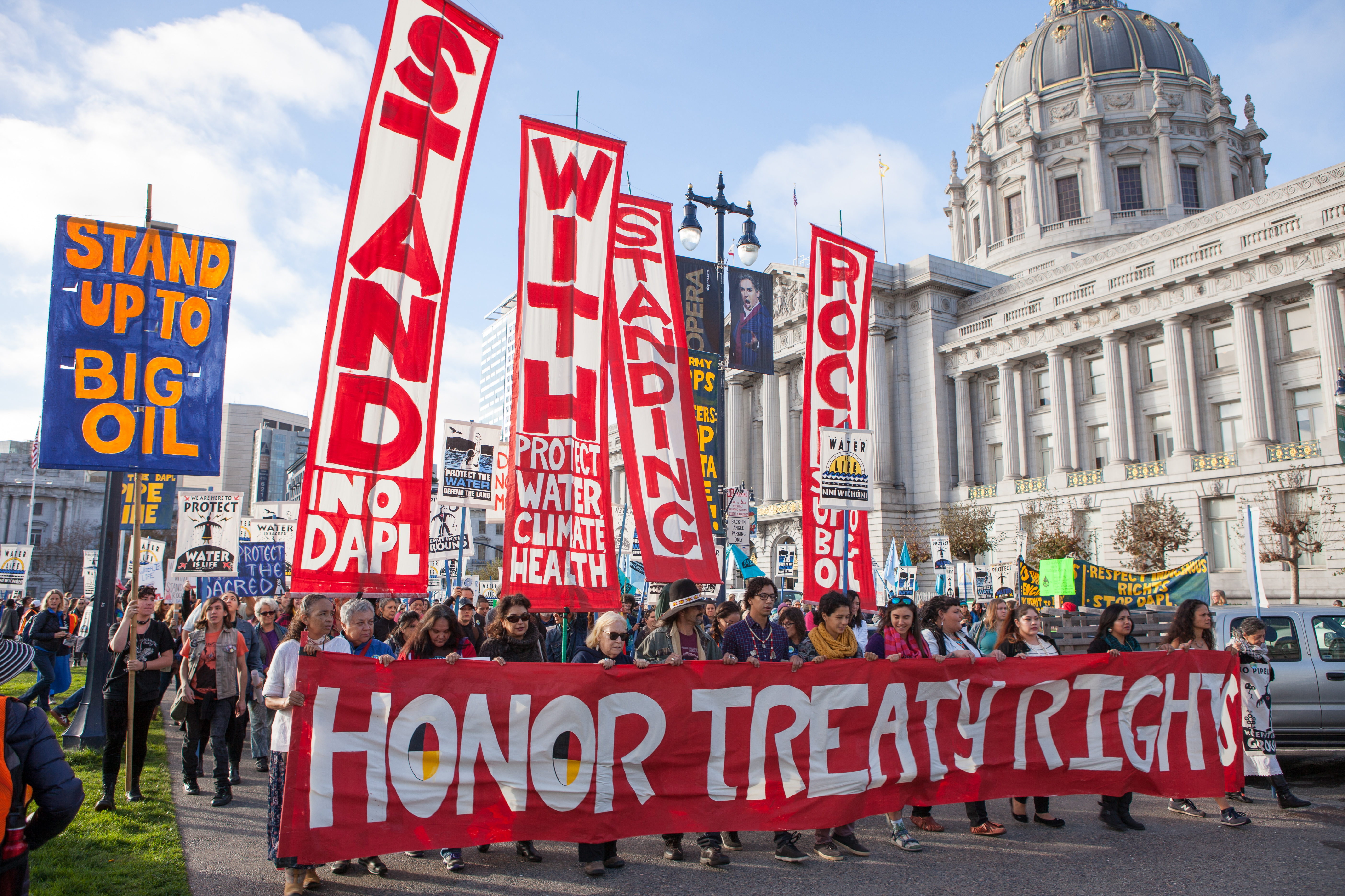 People protesting the Dakota Access Pipeline march past San Francisco City Hall.